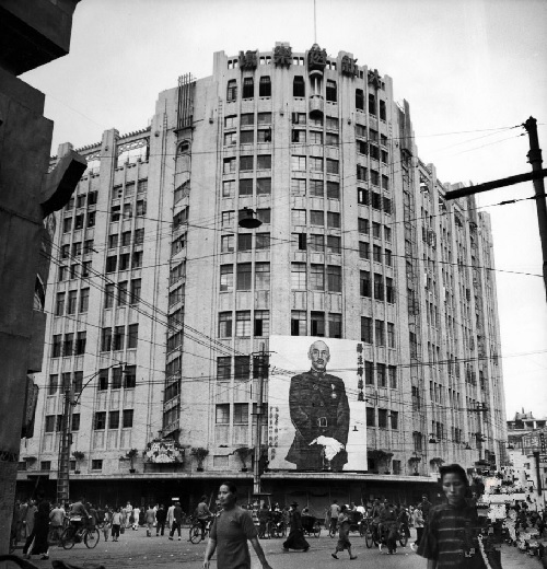 WWII Victory parade at Shanghai on 10 October 1945.